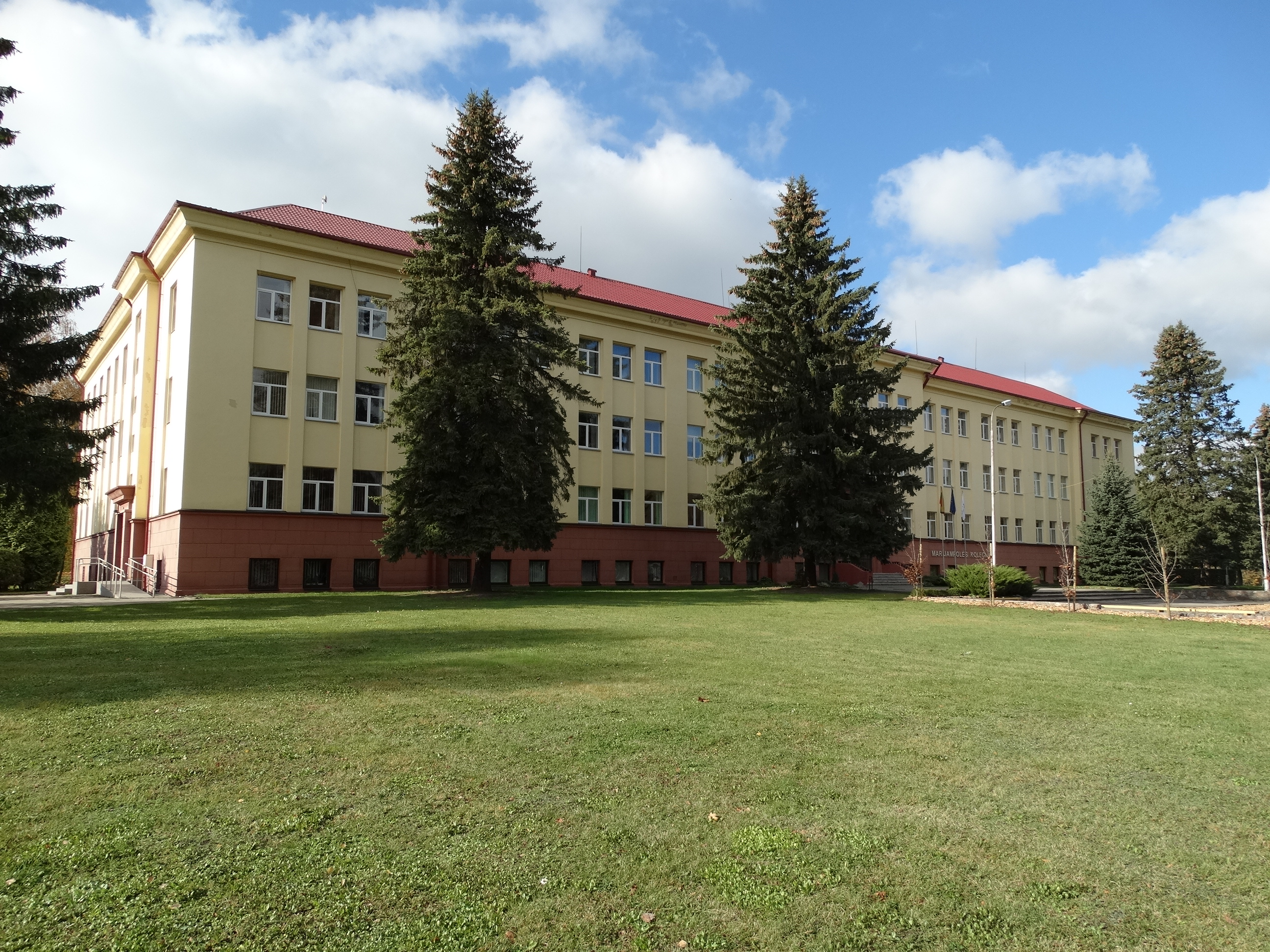 College, Marijampolė, Lithuania